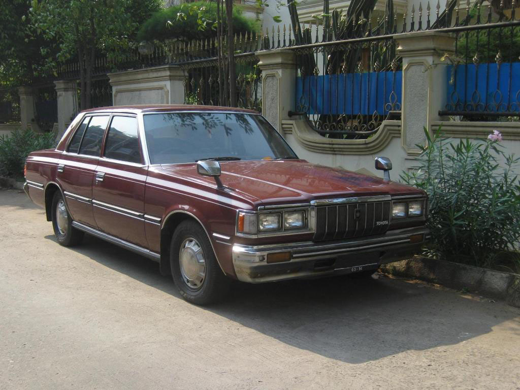 1981 Toyota Crown Sedan 2.8 Deluxe (MS112), photographed in Jakarta, Indonesia.